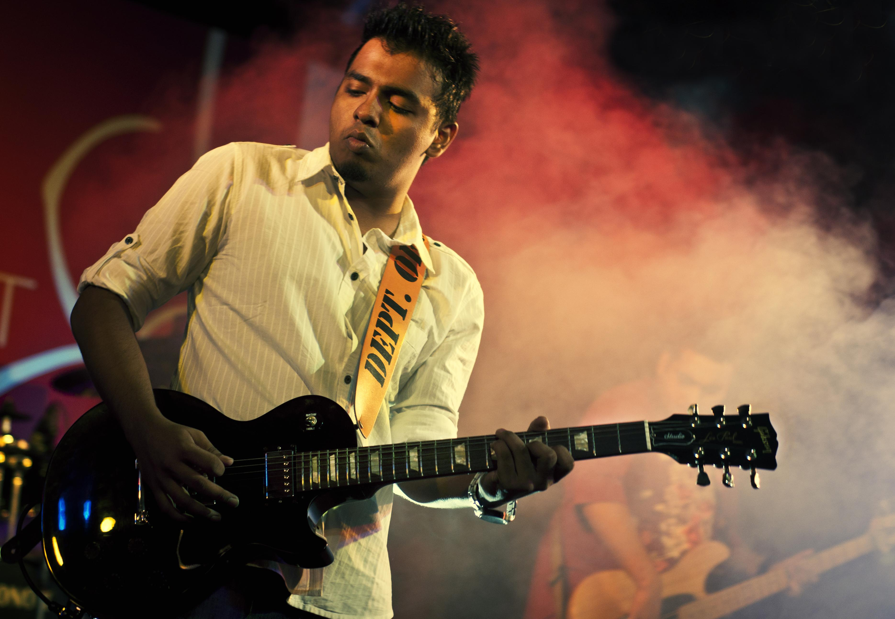 Lead Guitarist of Underground Authority